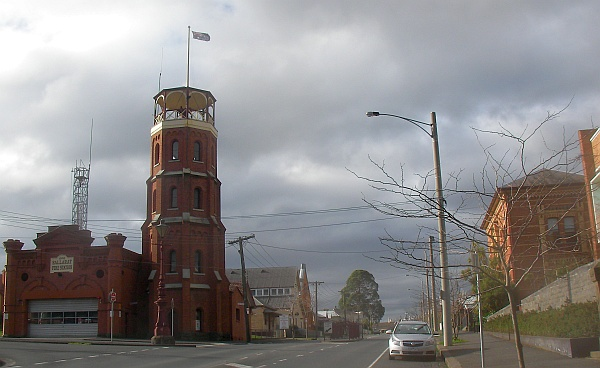 Former East Ballarat Civic Area on the corner of Barkly and East Streets. The Ballarat East Fire Station is on the left, the old Library is in the middle and Ballarat Secondary College on the right stands on the site of the former East Ballarat Town Hall and gardens.